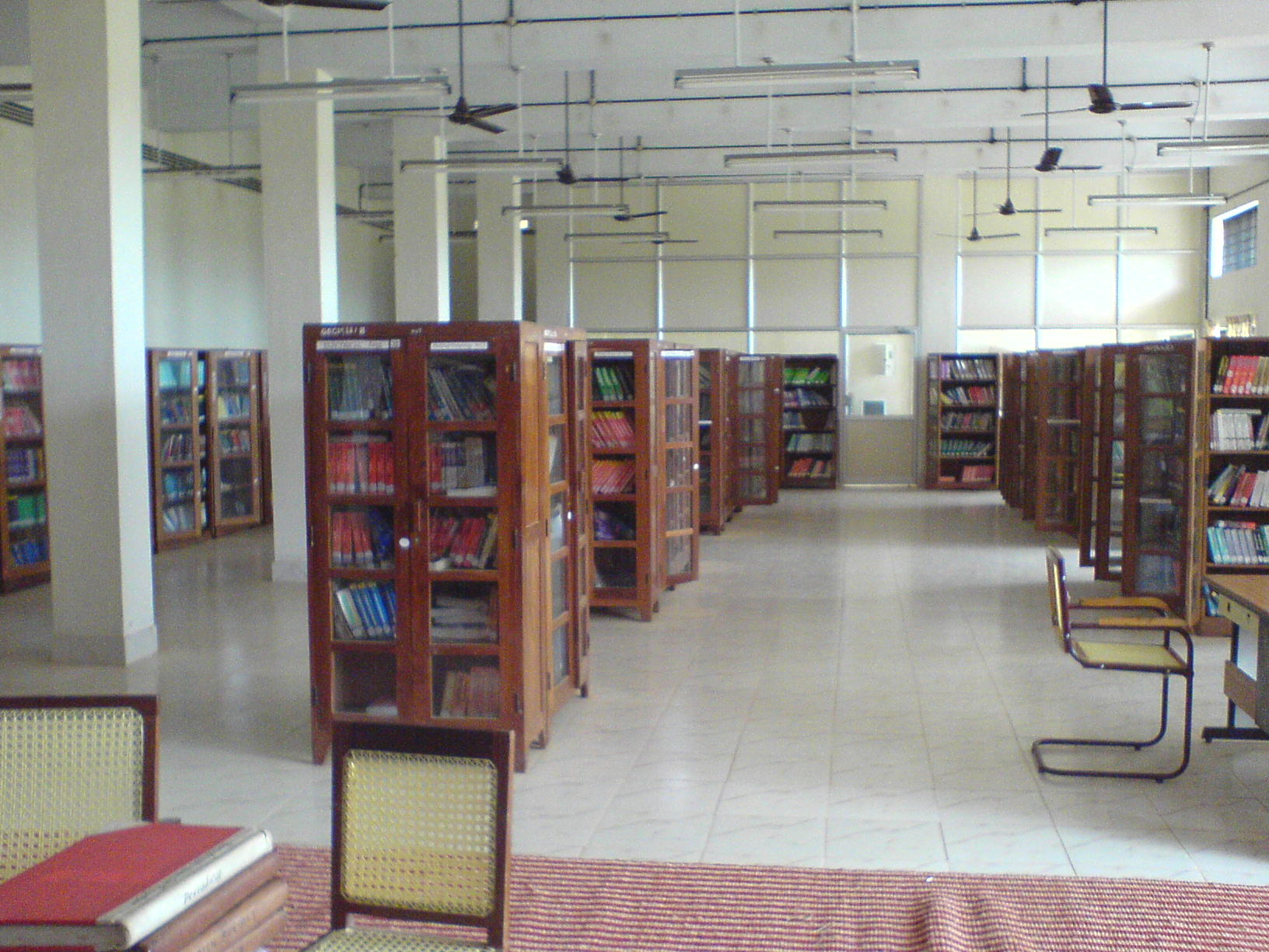 GEC Idukki library001